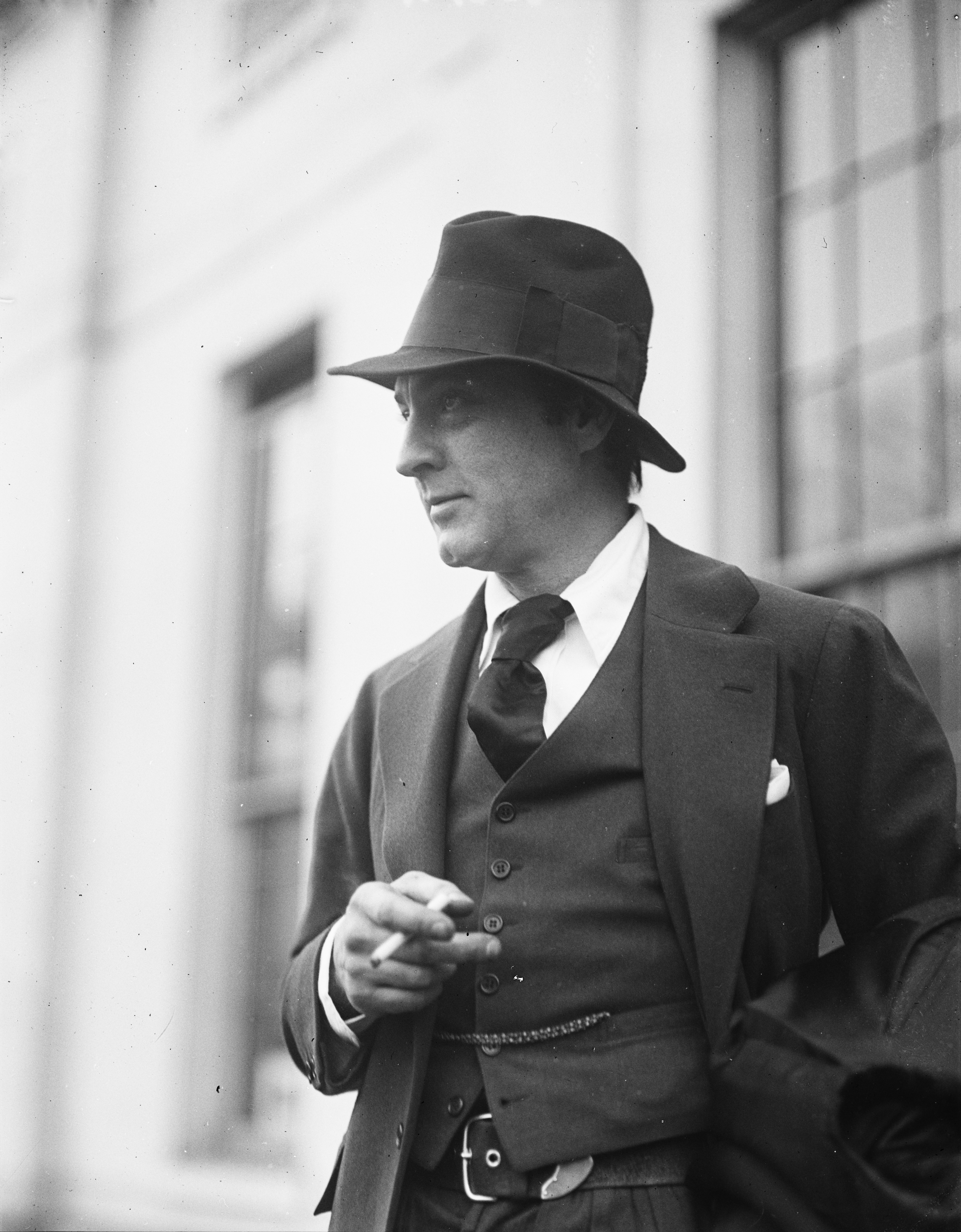 John Barrymore, Actor, at White House, Jan. 9 (Coolidge administration)